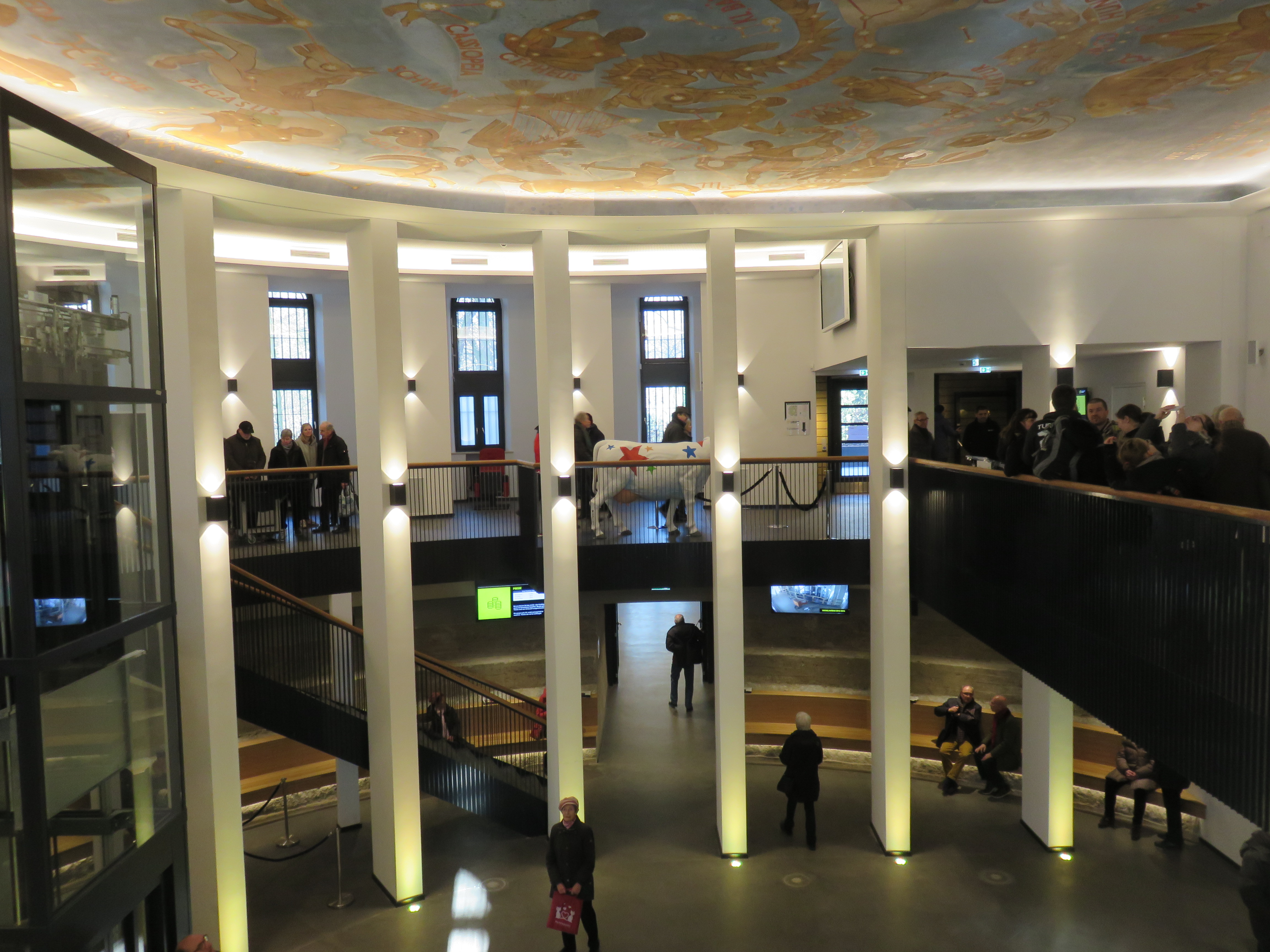 Planetarium Hamburg, Foyer after reconstruction in 2016